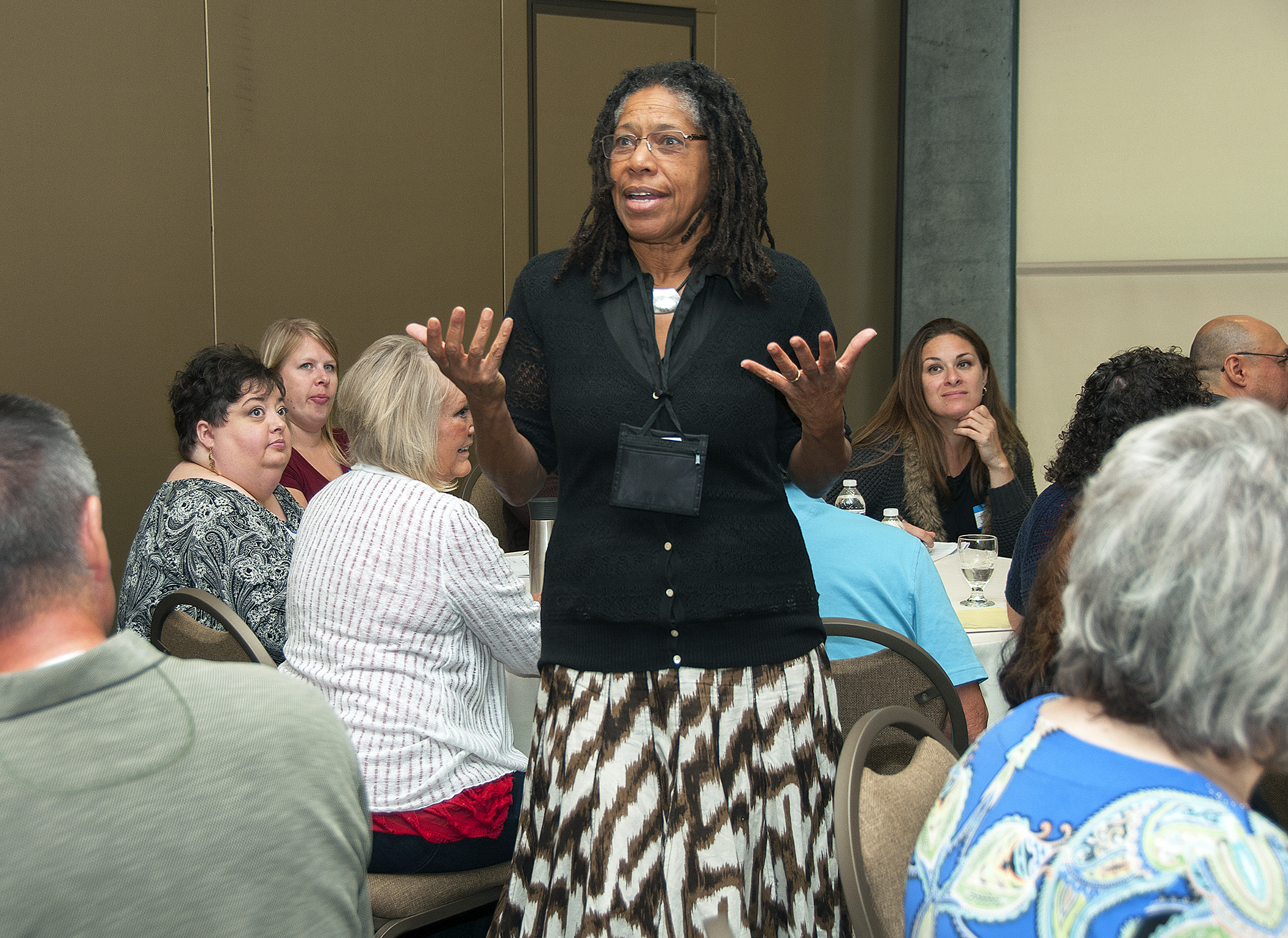 Dr. Jean Moule discusses "Unconcious Bias: Unintentional Racism."